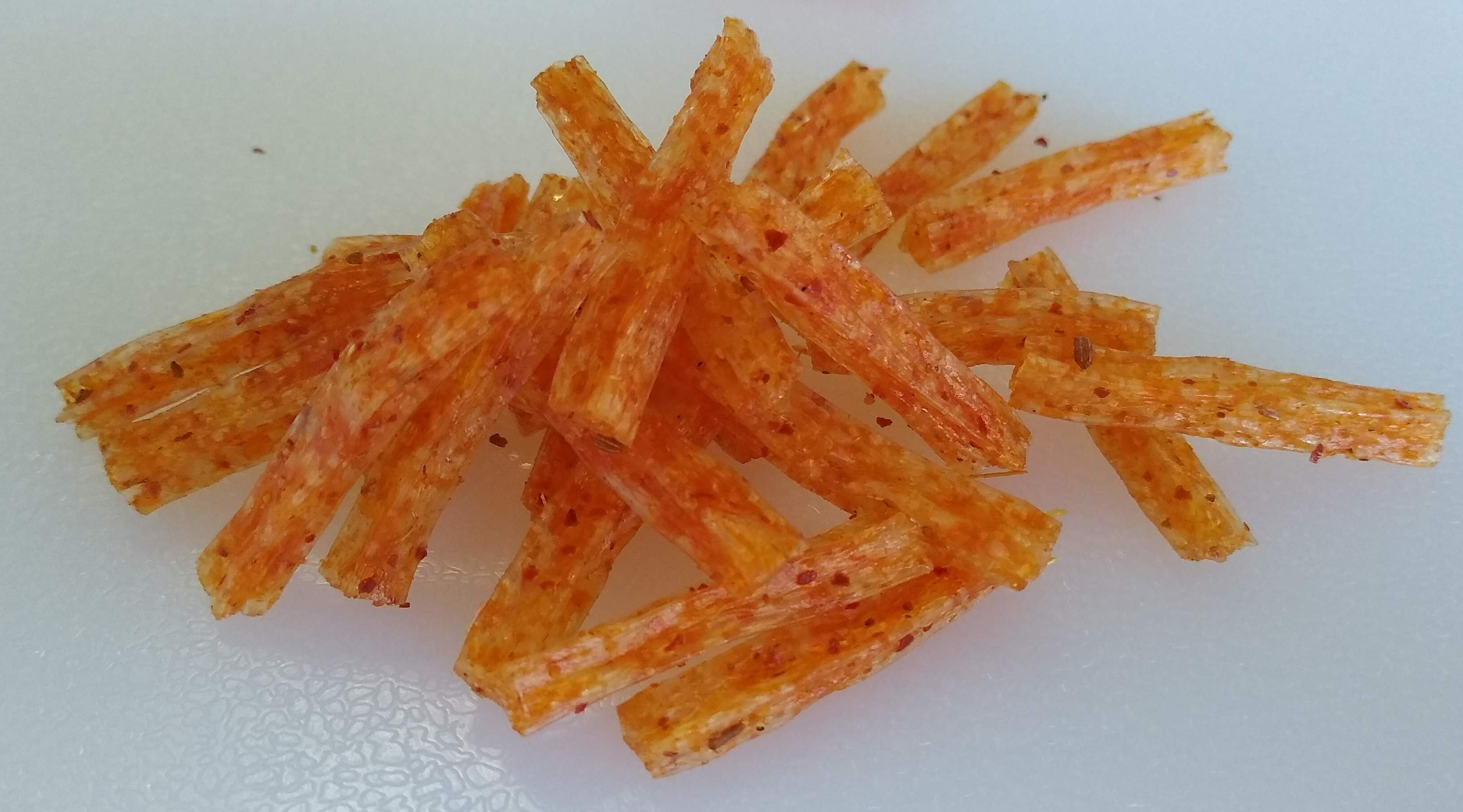 Làtiáo (辣条), a spicy wheat-based Chinese snack food. Made by Wèilóng (卫龙).